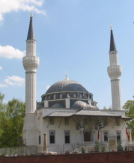 The Sehitlik-Moschee is a mosque on the Islamischen Friedhof (cemetery of islam) in Berlin-Neukölln. The laying of the foundation stone was in 1999.